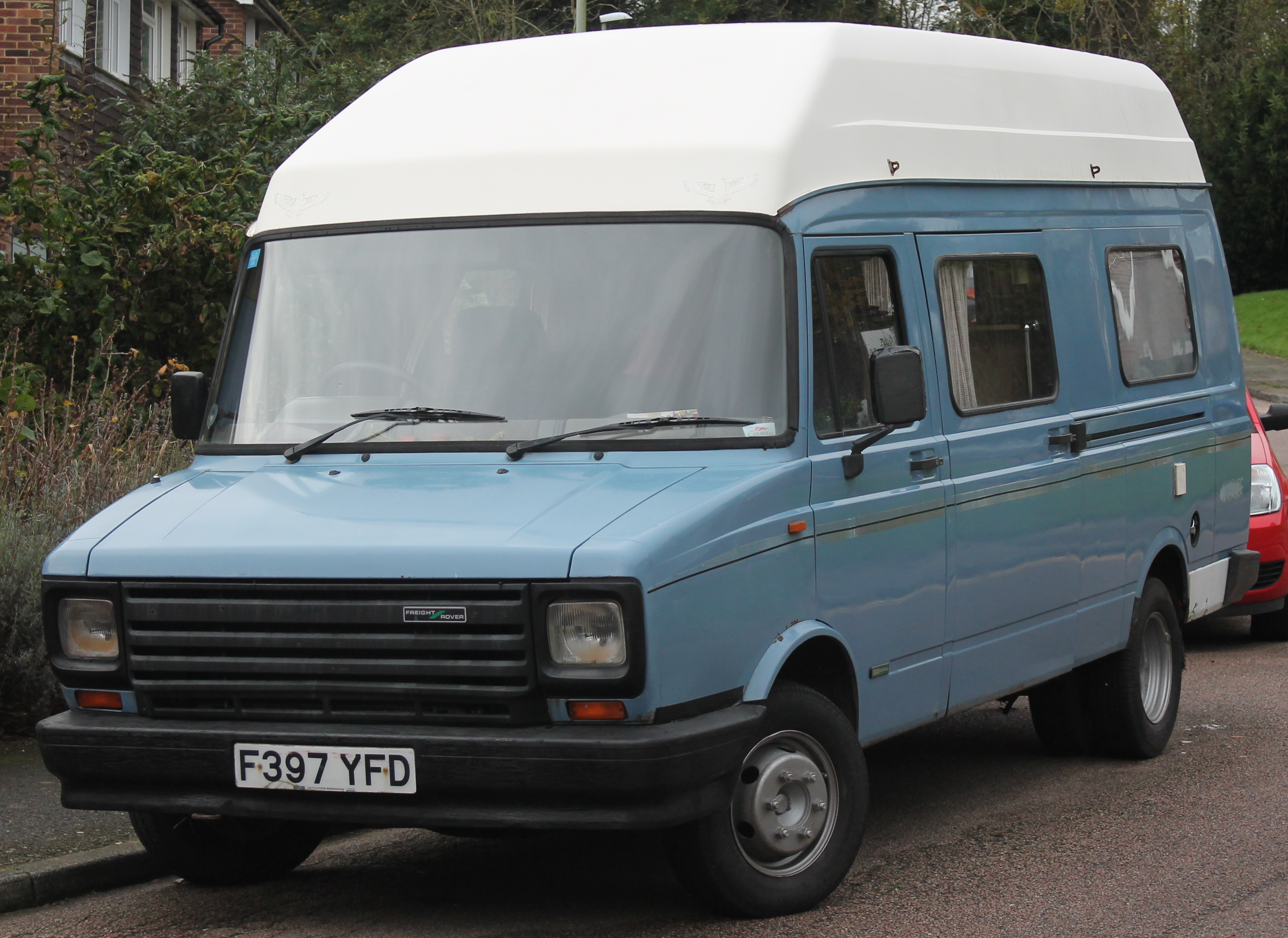 Surely one of the tidiest Freight Rover Sherpas still in the UK? This was literally gleaming, and looks near enough spotless. These always rusted terribly, and as such most didn't live beyond the 1990s, so seeing this in 2014 was lovely. If I could crop out the modern cars, this could easily be a shot from the late 80s. Saw it from a distance and approached expecting an LDV, so a Freight Rover badge was something special. This is the only '350' licenced from 1988. Registration number: F397 YFD ✔ Taxed Expires: 01 October 2015 ✔ MOT Expires: 26 October 2015